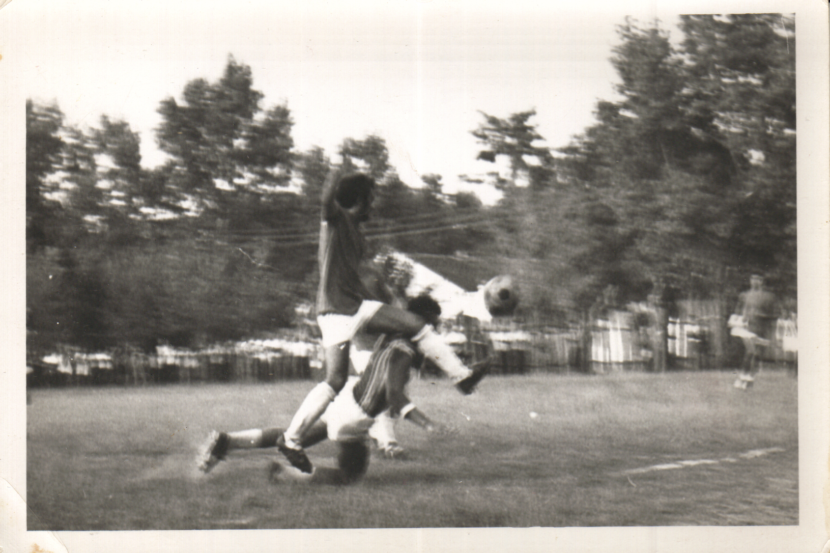 Moment_from_game_goal_scored by Ernö Varga